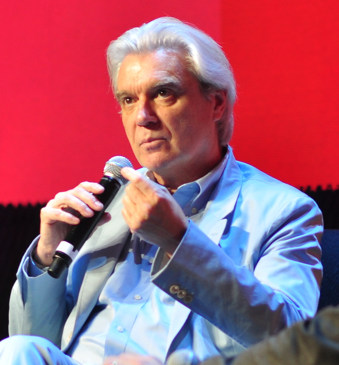 David Byrne at the 2017 Pop Conference, MoPOP, Seattle, Washington, U.S.